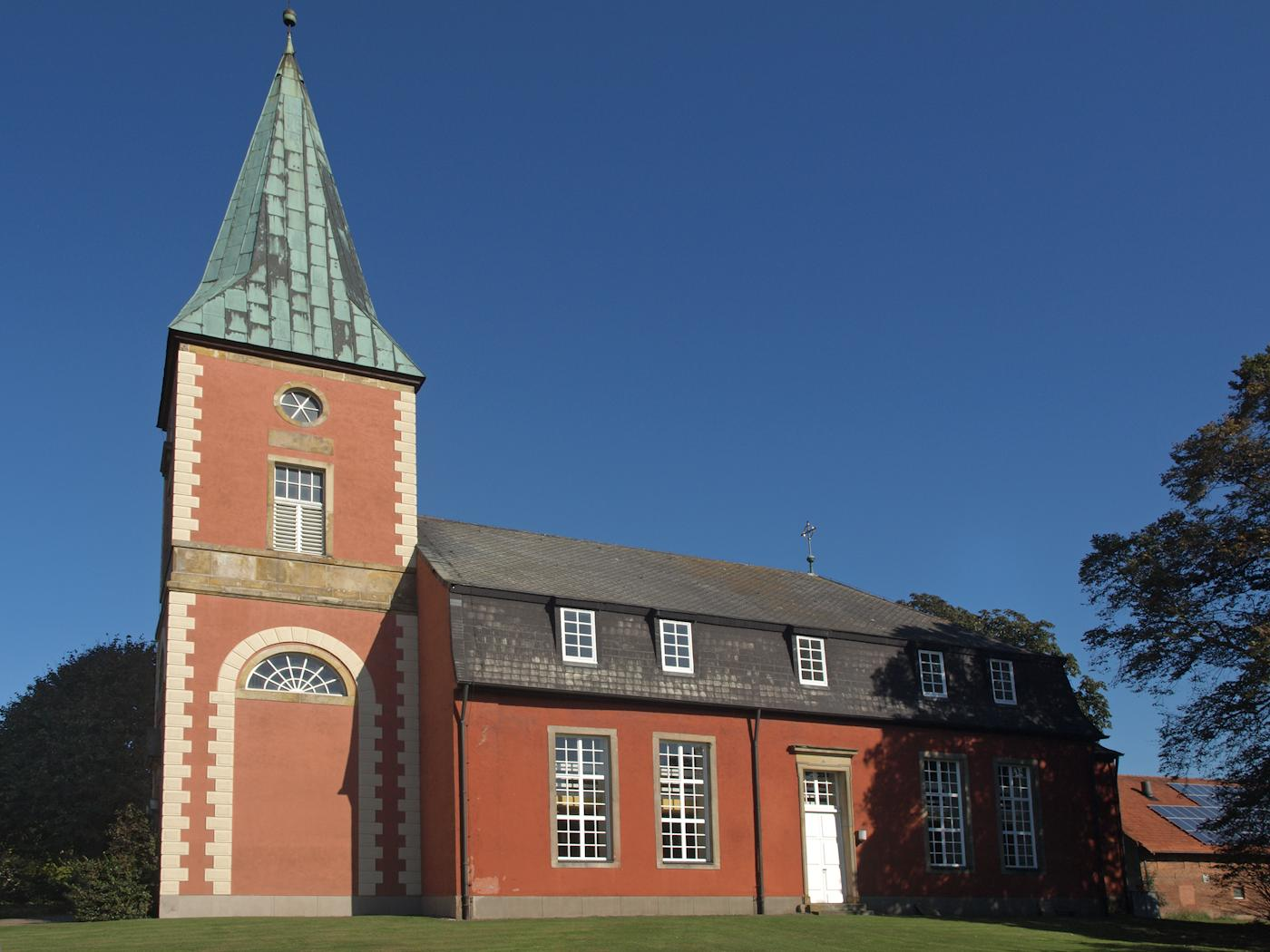 Intschede (Lower Saxony, Germany), Castle Erbhof, photo 2011